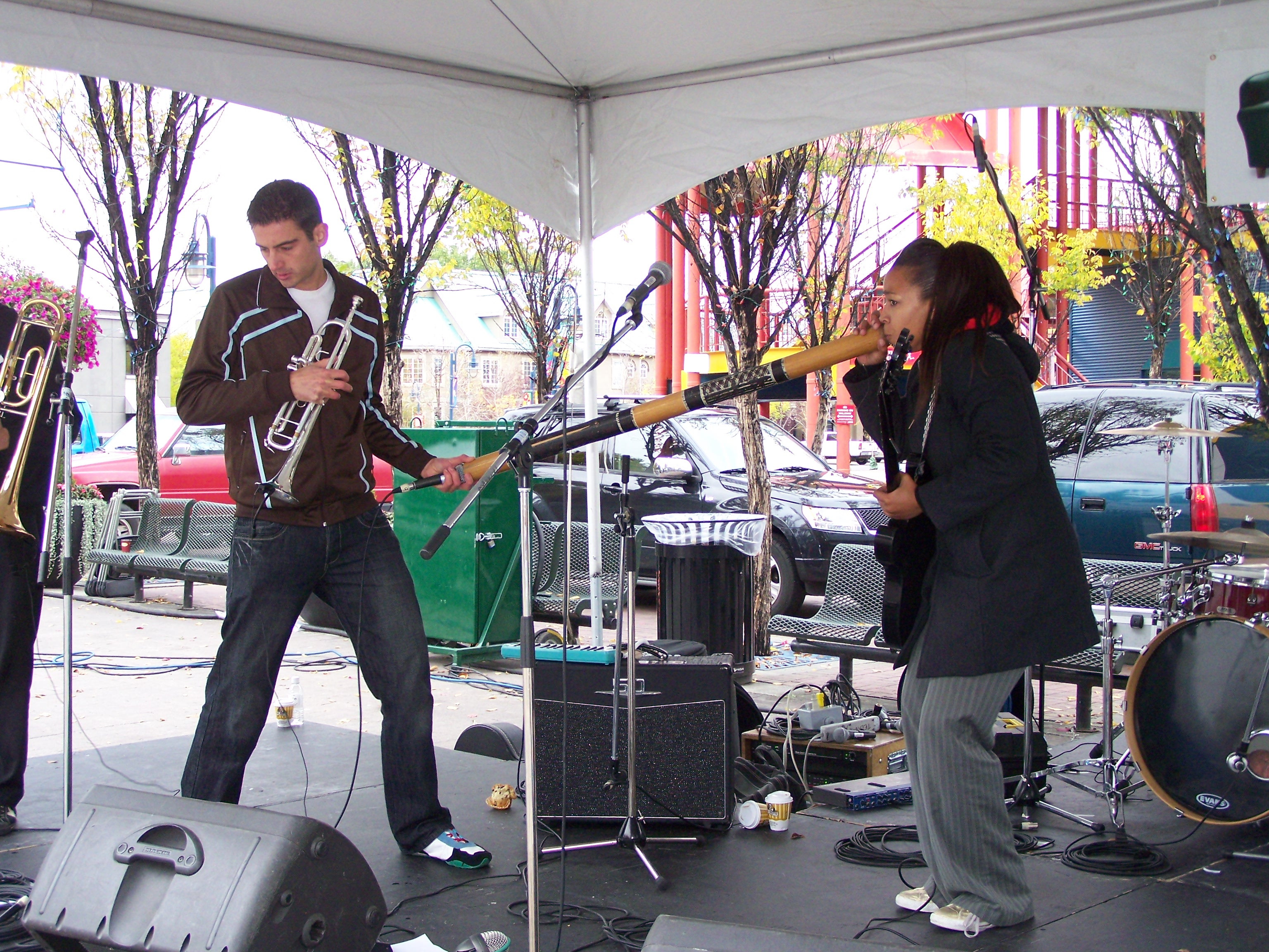 Tristin Chanel playing a Didgeridoo with Five Star Affair performing in Eau Claire, Calgary in Calgary, Alberta, Canada. This was a free concert to help with the 13th annual AIDS Walk for Life on Sunday, September 23, 2007.